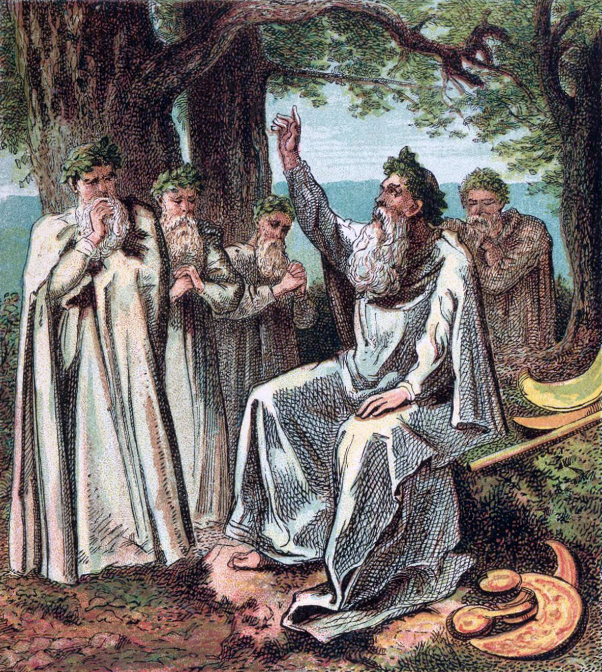 Druids of Ole England